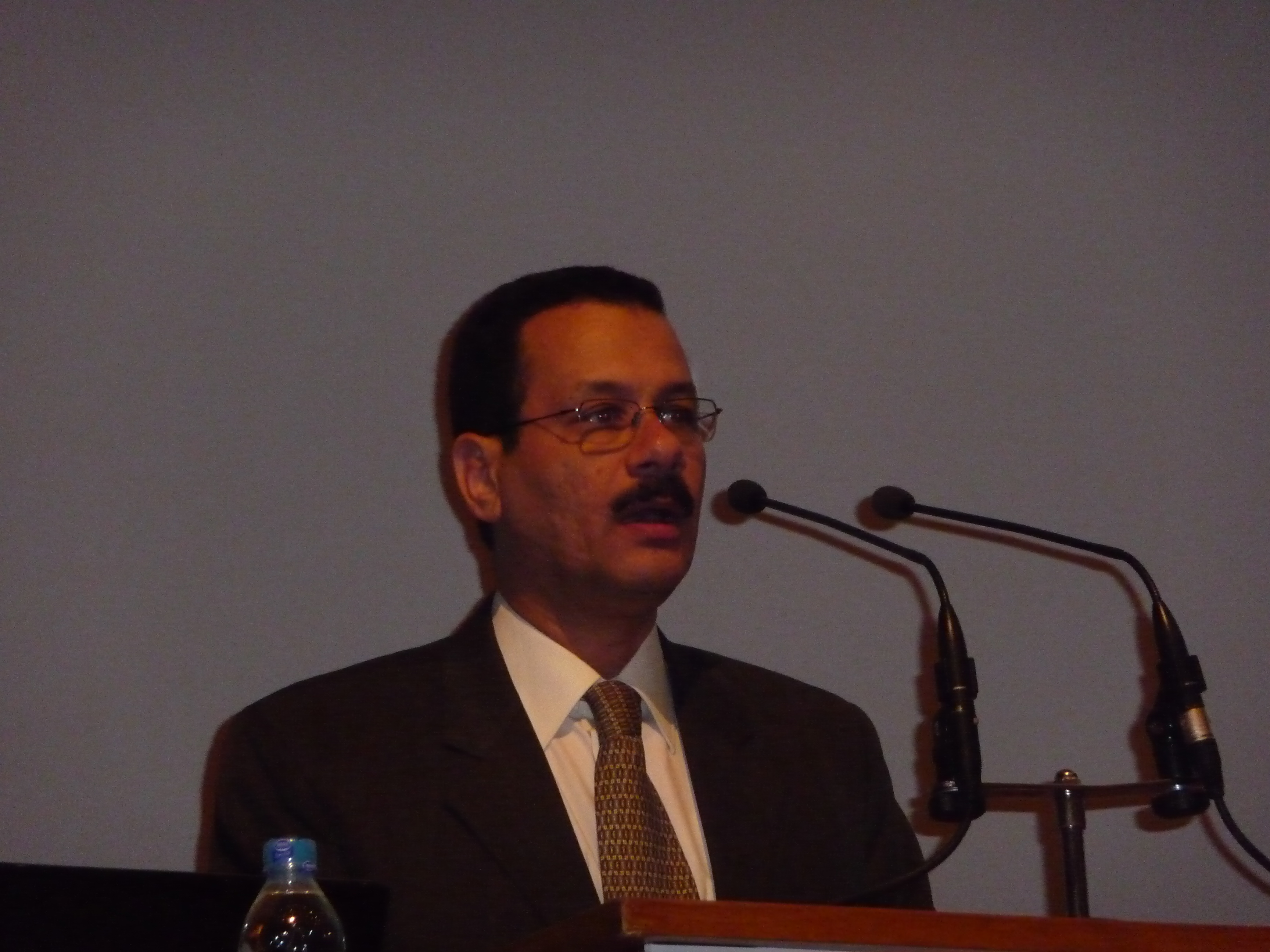 Opening Ceremony of Wikimania 2008.